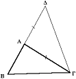 Triangle inequality